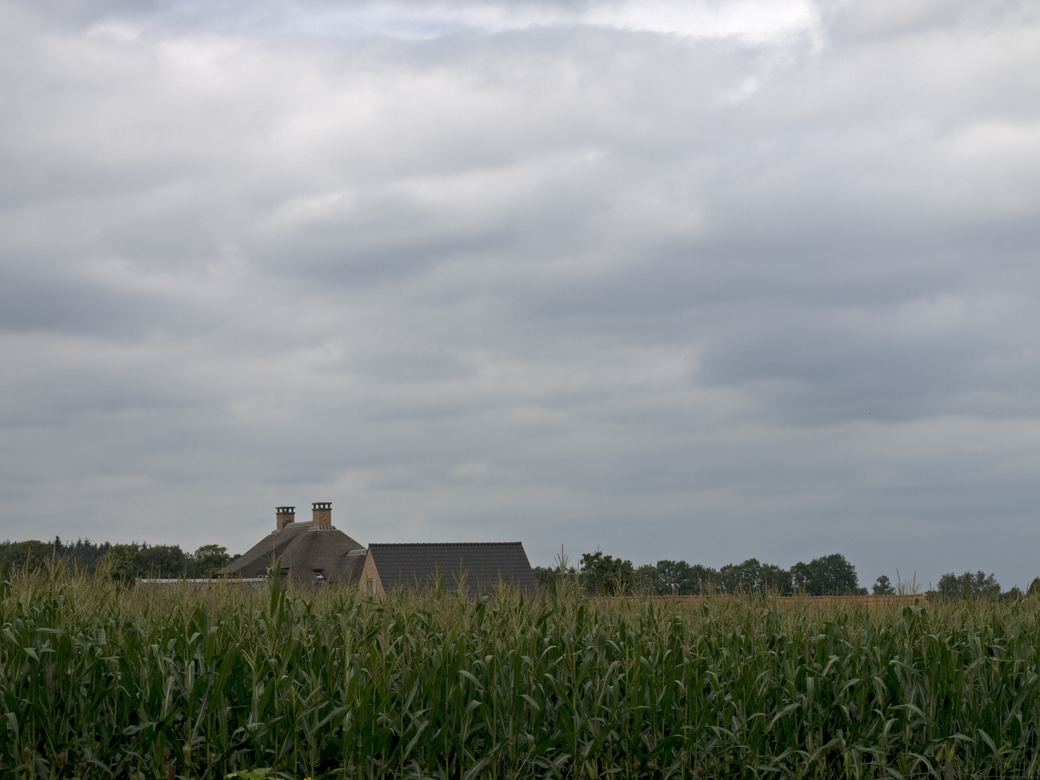 Acterberg: NW end of Bovenweg